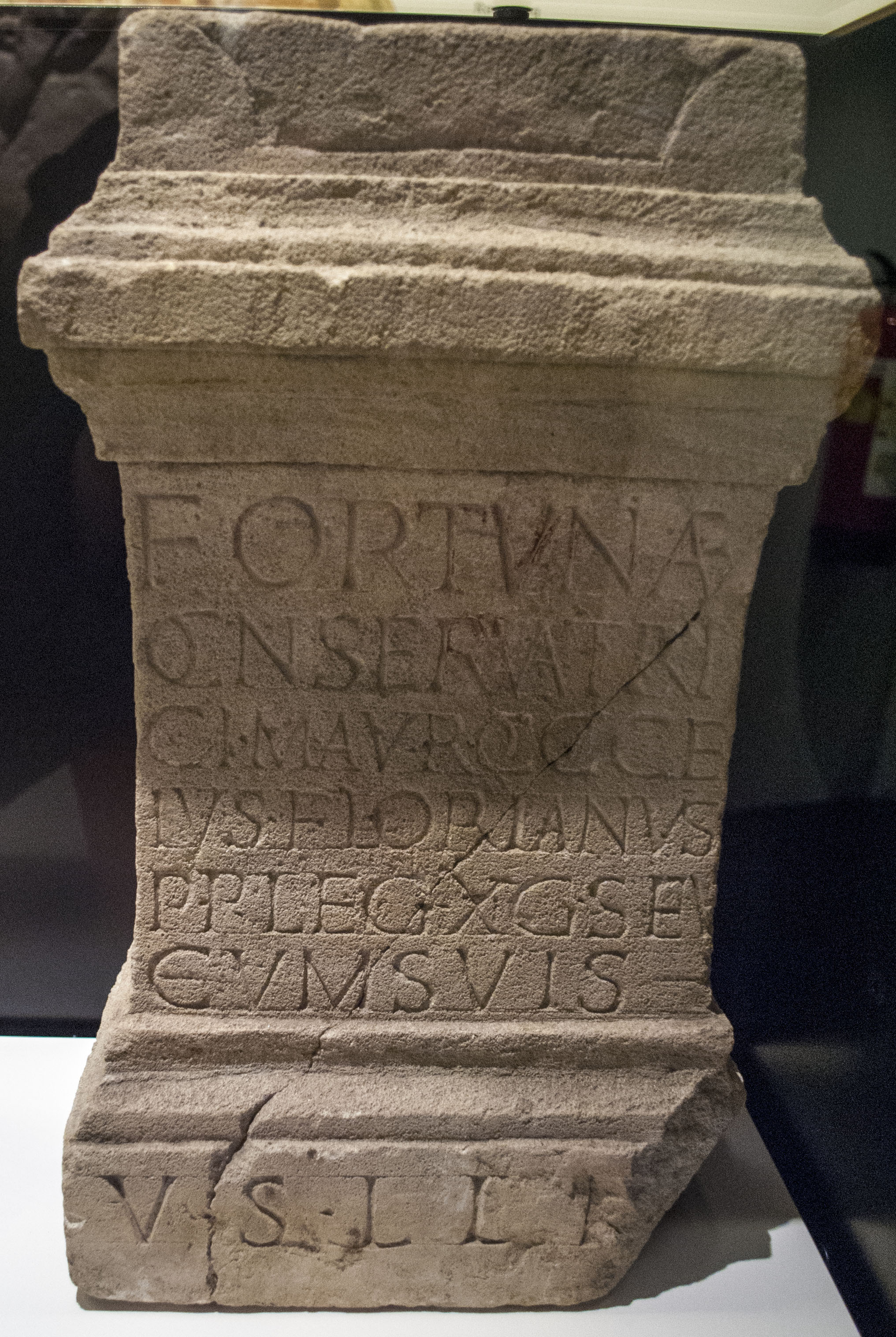 Votive altar for Fortuna Conservatrix, 222-235 A.D. Sandstone. Inscription: M. Aurelius Cocceius, primus pilus of the Legio X Gemina Severiana, with his people, to Fortuna Conservatrix. The vow was redeemed voluntarily, happily and accordingly.